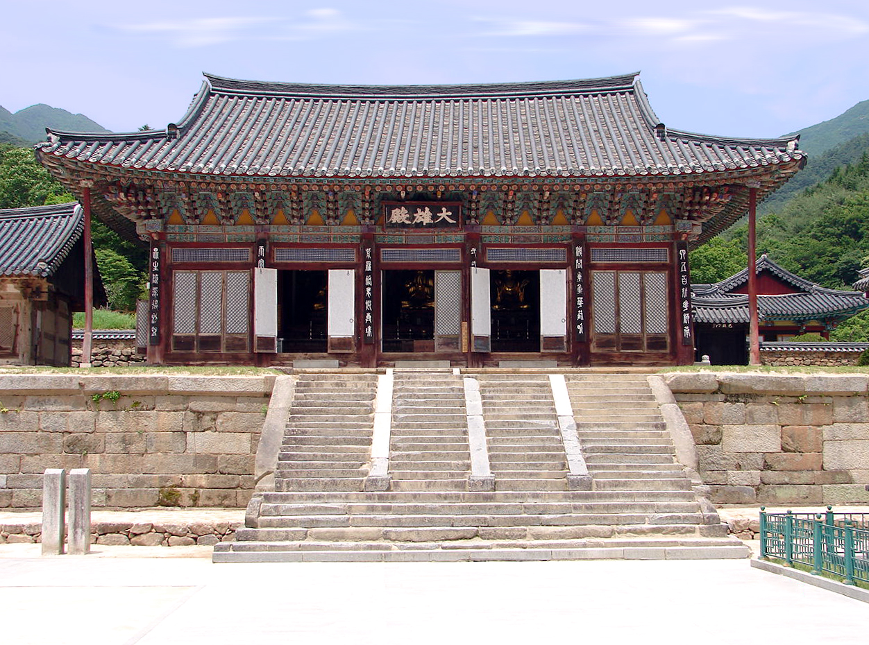 Hwaeomsa is a head temple of the Jogye Order located on the slopes of Jirisan, Gurye County, in Jeollanam-do, South Korea constructed under the Silla dynasty in 544, burned down during the Seven Year War in the 1590s, and then rebuilt.